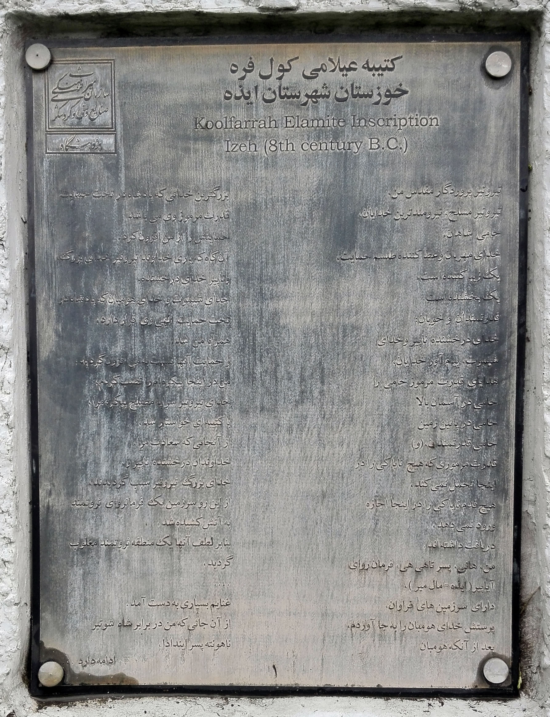 taken in inscription garden, Tehran